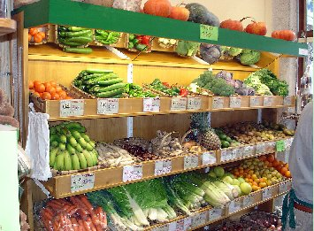 MERCAMPO (Nicaraguan farmers marker picture)